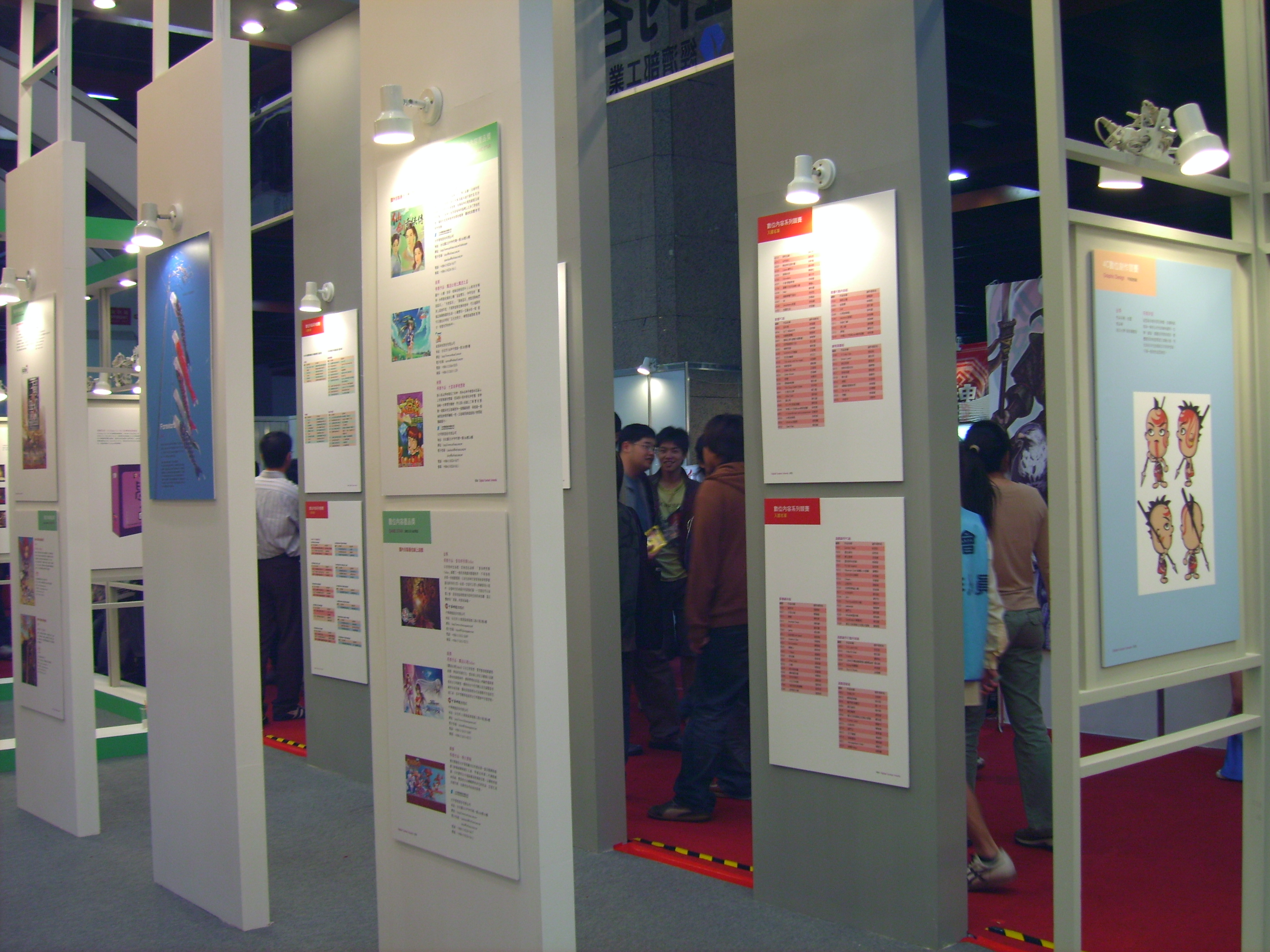 Taiwan Digital Contents Award Pavilion at 2007 Taipei Game Show.